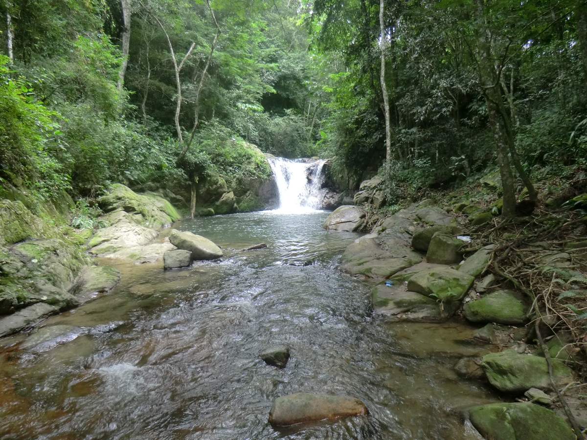 Río del Norte - in the Venezuelan Coastal Range.